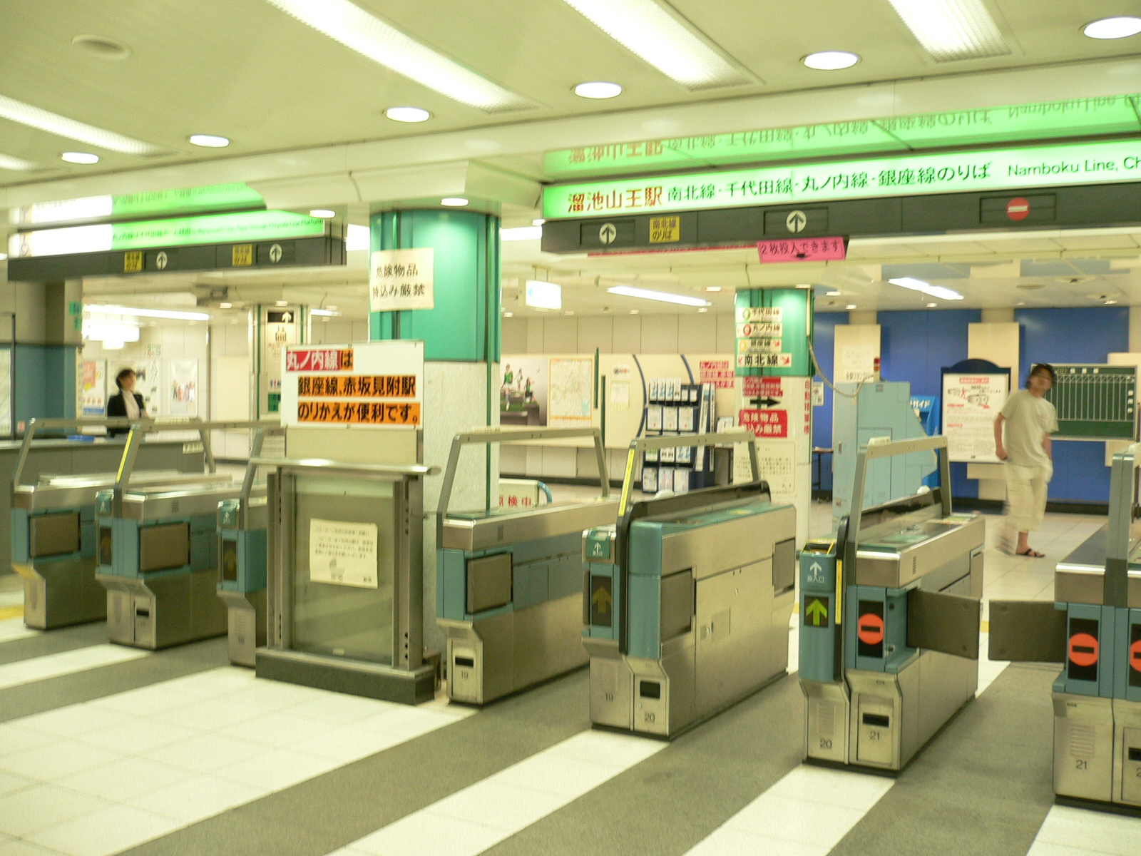 Tameikesanno Station(溜池山王駅) in Minato W, Tokyo M.